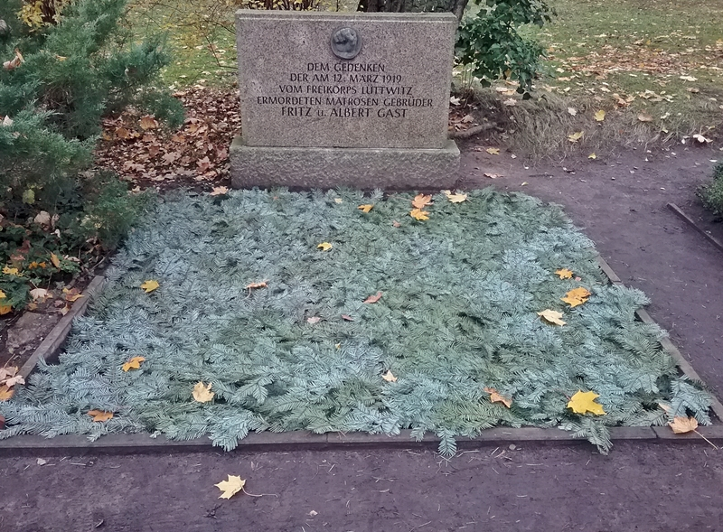 Memorial stone Red Sailors